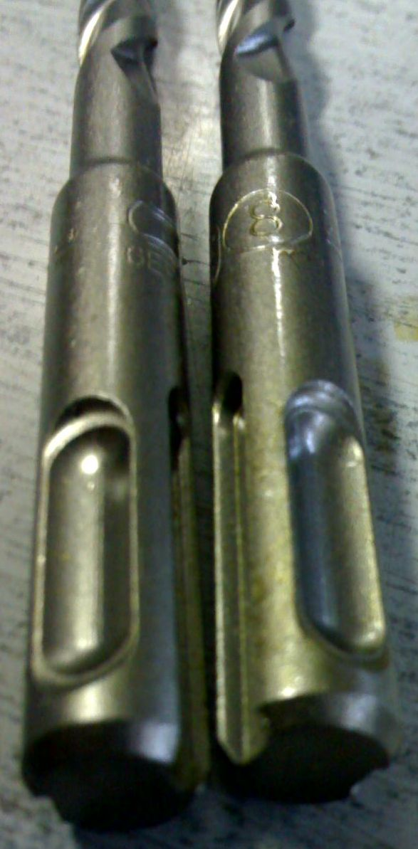 End of SDS plus Bosch drills